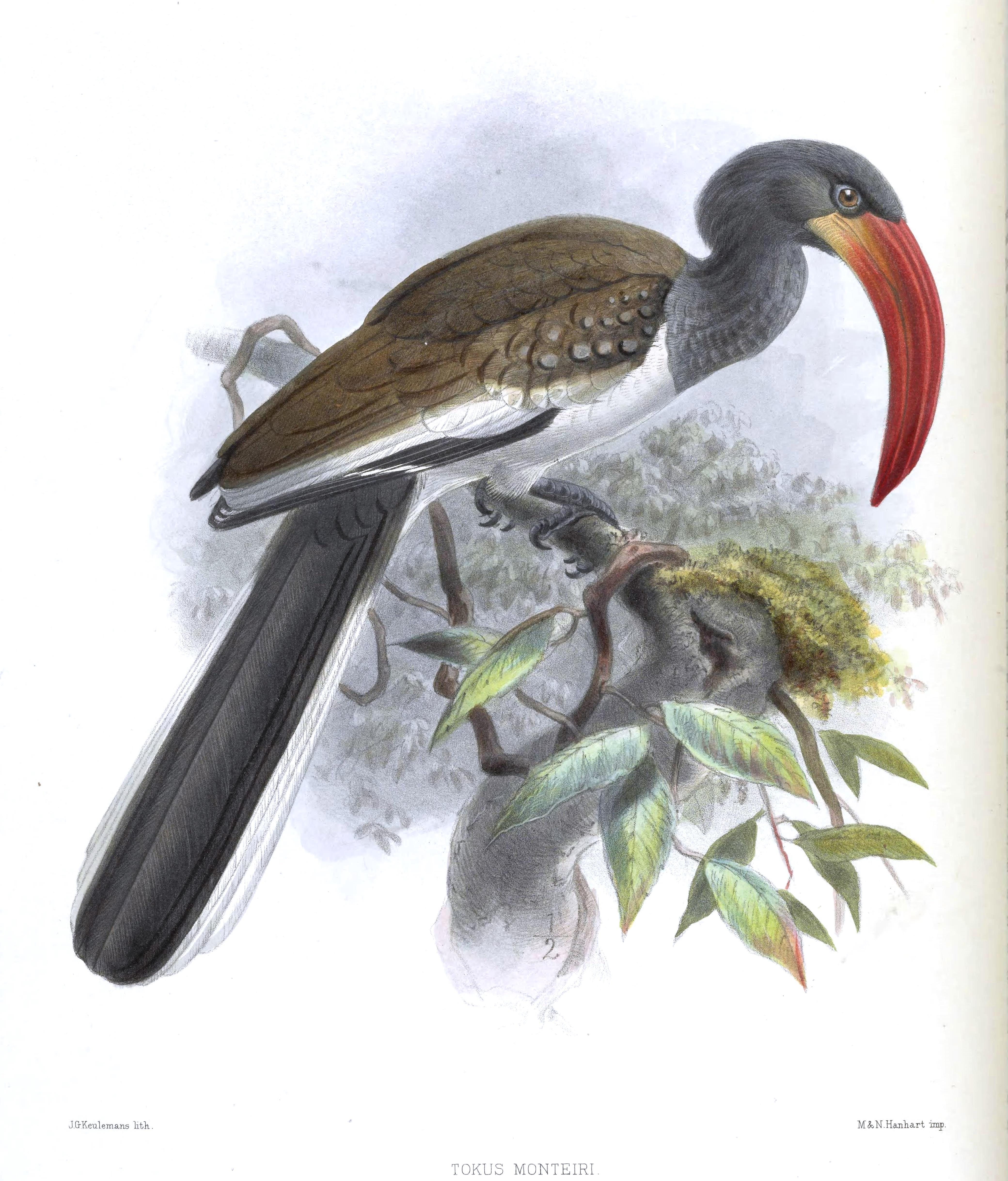 A monograph of the Bucerotidæ, or family of the hornbills.